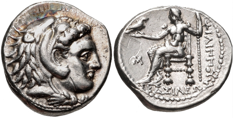 Philip III Arrhidaios. 323-317 BC. AR Drachm (15mm, 4.26 g, 3h). Babylon mint. Struck under Archon, Dokimos, or Seleukos I, circa 323-318/7 BC. Head of Herakles right, wearing lion skin / Zeus Aëtophoros seated left; M in left field.